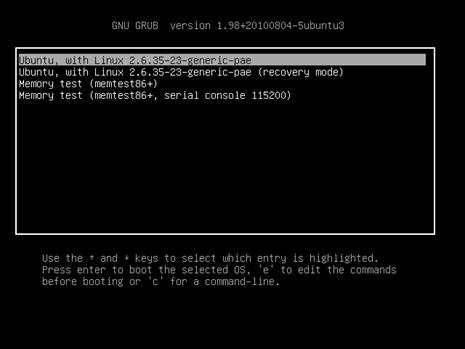 grub boot menu